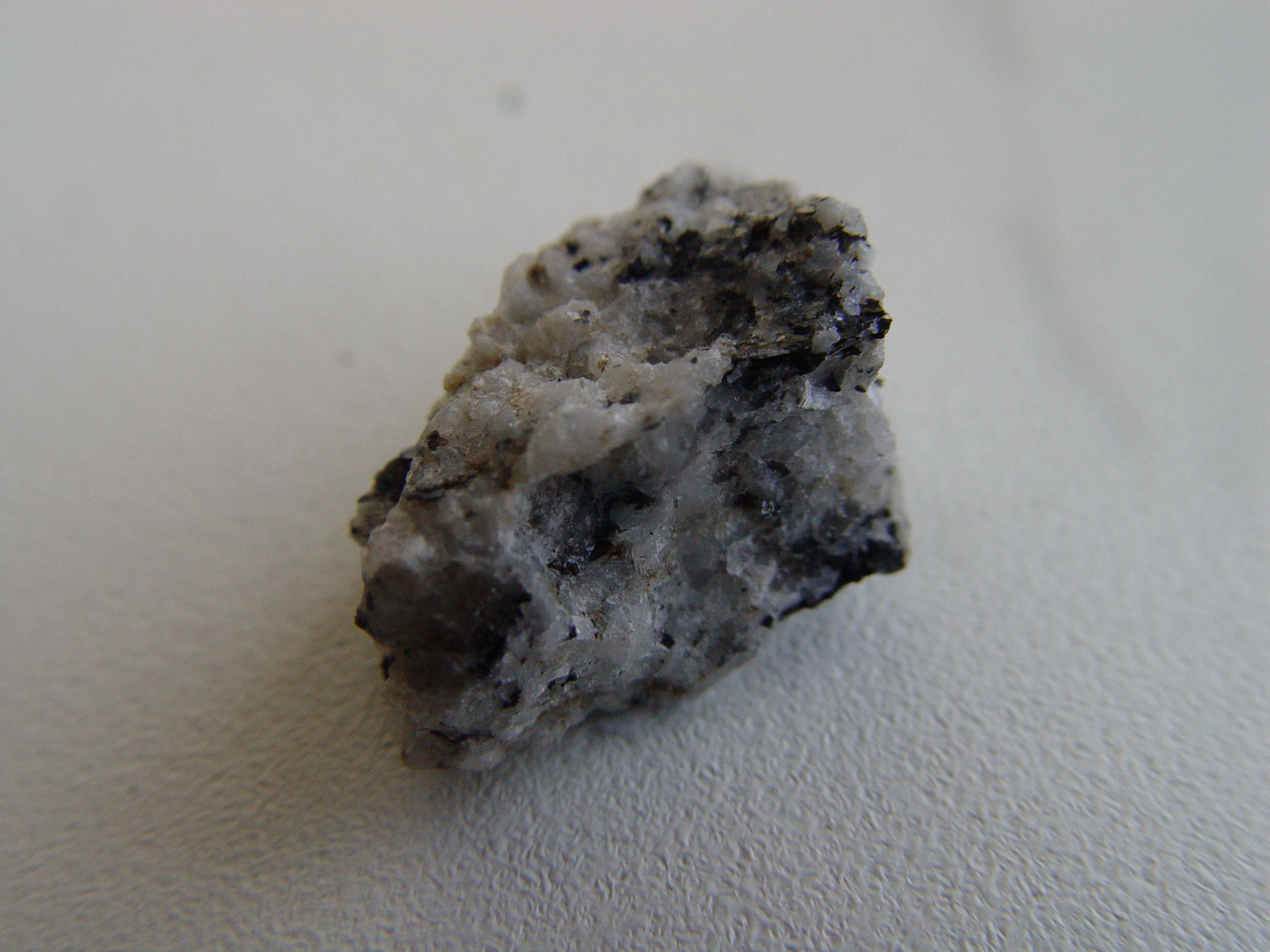 Miaskite, a variety of syenite, from Russia.